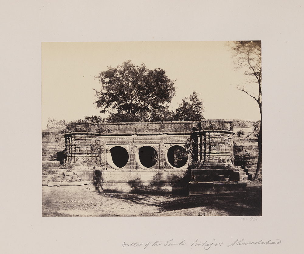 Title: Outlet of the Tank Sirkejan, Ahmedabad. Alternative Title: [Outlet of the Sarkhej Roza Tank, Ahmedabad] Creator: William Johnson Date: ca. 1855-1862 Series: Photographs of Western India. Volume III. Scenery, Public Buildings, &c. Part of: Photographs of Western India Place: Ahmedabad, Gujarat, India Physical Description: 1 photographic print: albumen, part of 1 volume (104 albumen prints); 20 x 26 cm on 35 x 42 cm mount File: vault_ag2002_1407x_3_213_outlet_opt.jpg Rights: Please cite Southern Methodist University, Central University Libraries, DeGolyer Library when using this image file. A high-quality version of this file may be obtained for a fee by contacting . For more information and to view the image in high resolution, see: View Europe, India, and Asia: Photographs, Manuscripts, and Imprints